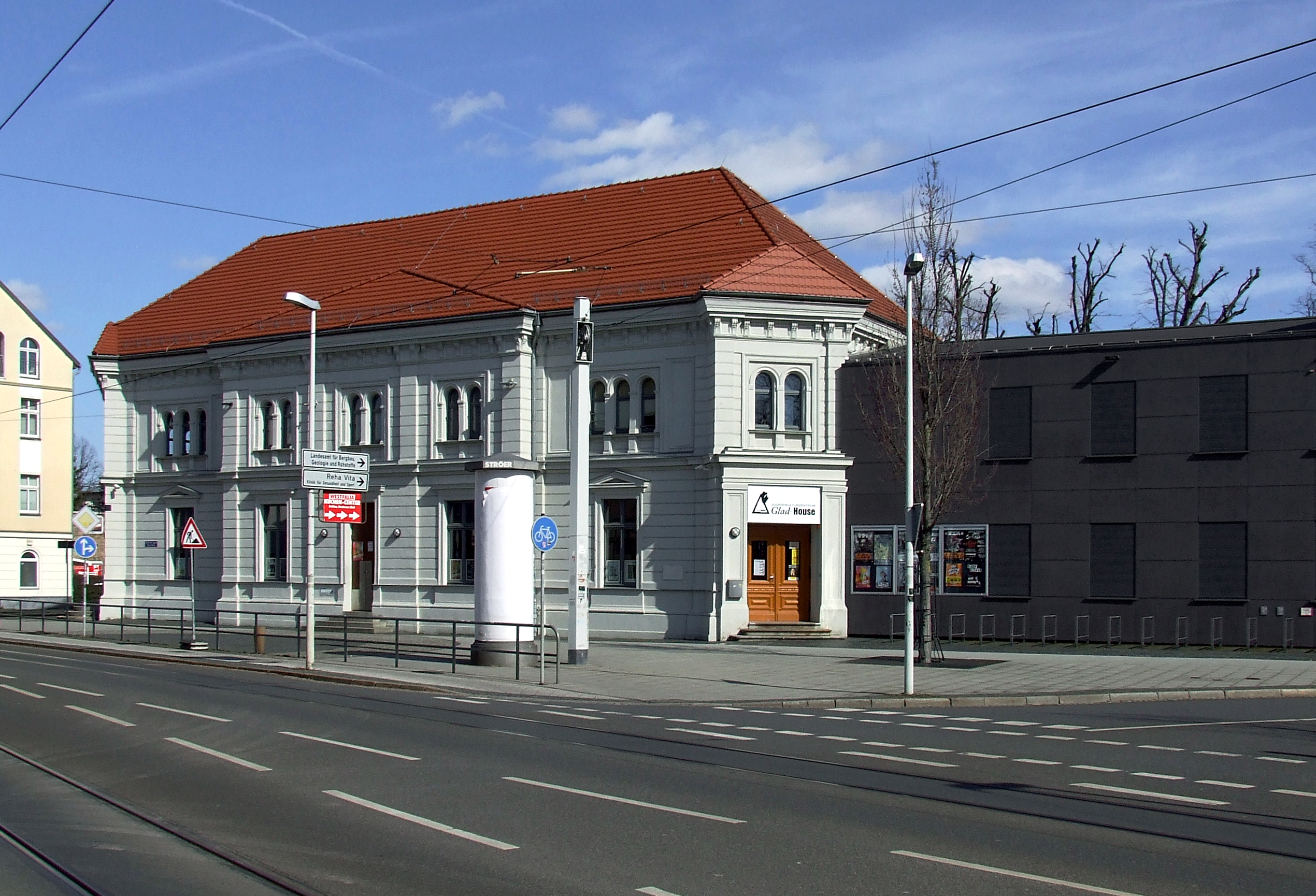 Straße der Jugend 16 (Bürger-Kasino) in Cottbus-Mitte.